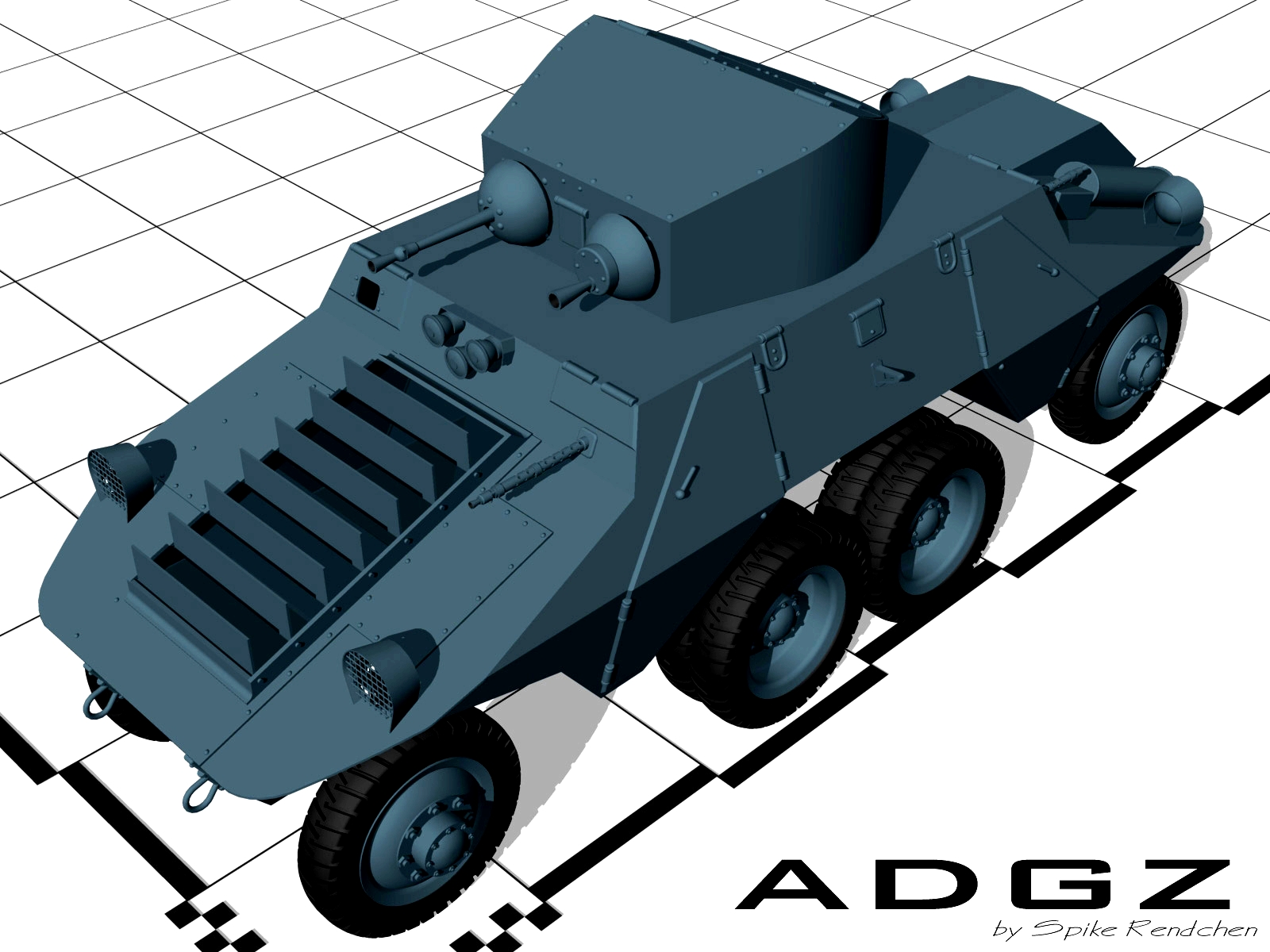 ADGZ AFV